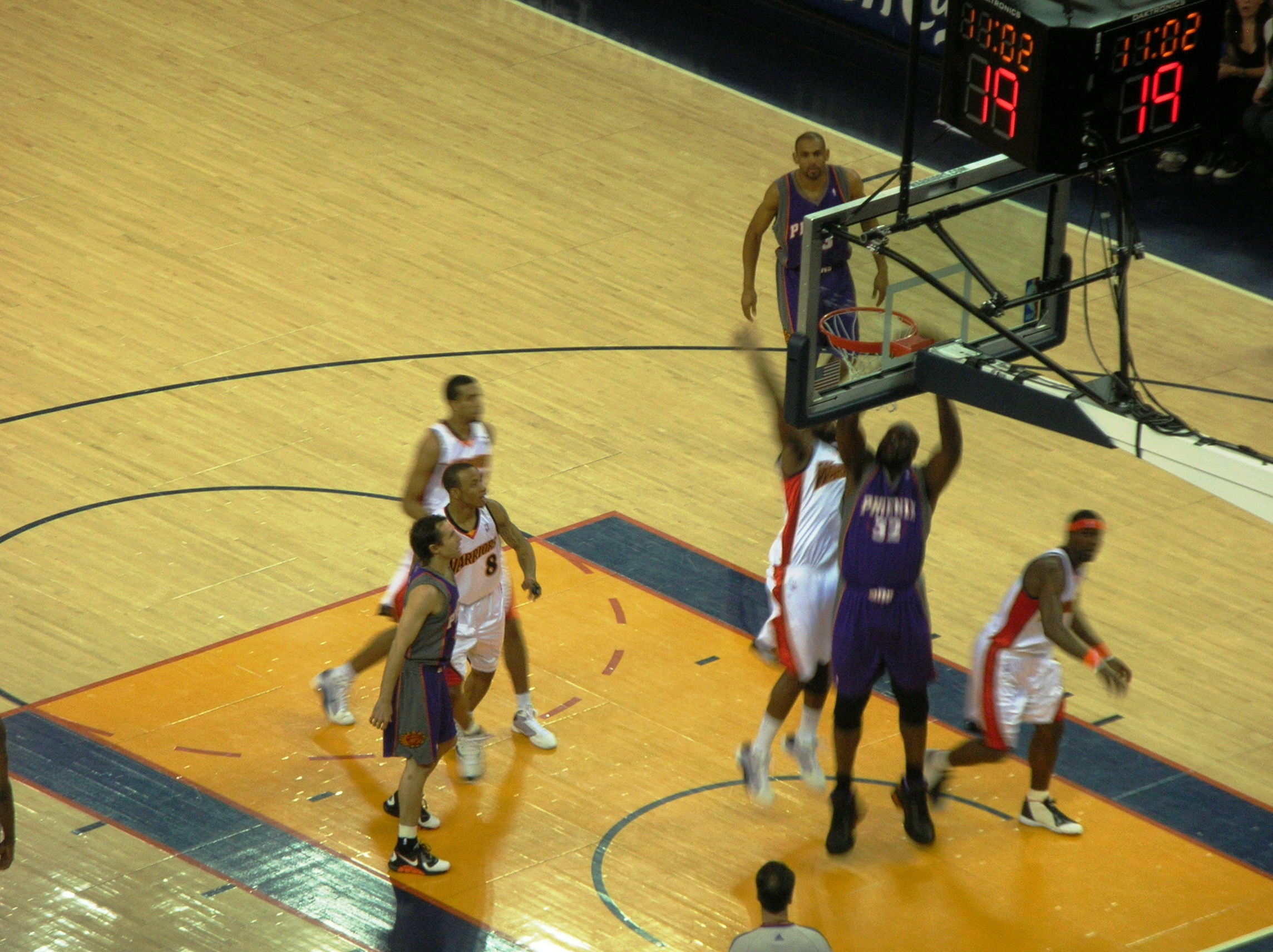 Phoenix Suns center Shaquille O'Neal goes up for a shot during a road game against the Golden State Warriors at Oracle Arena. The Suns won 154-130.